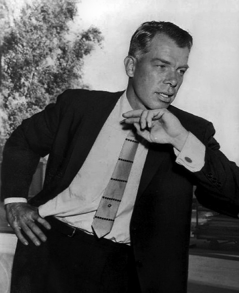 Publicity photos of Lee Marvin from his television program M Squad and from a guest appearance on Colgate Western Theatre. Marvin had the role of Frank Ballinger on M Squad.